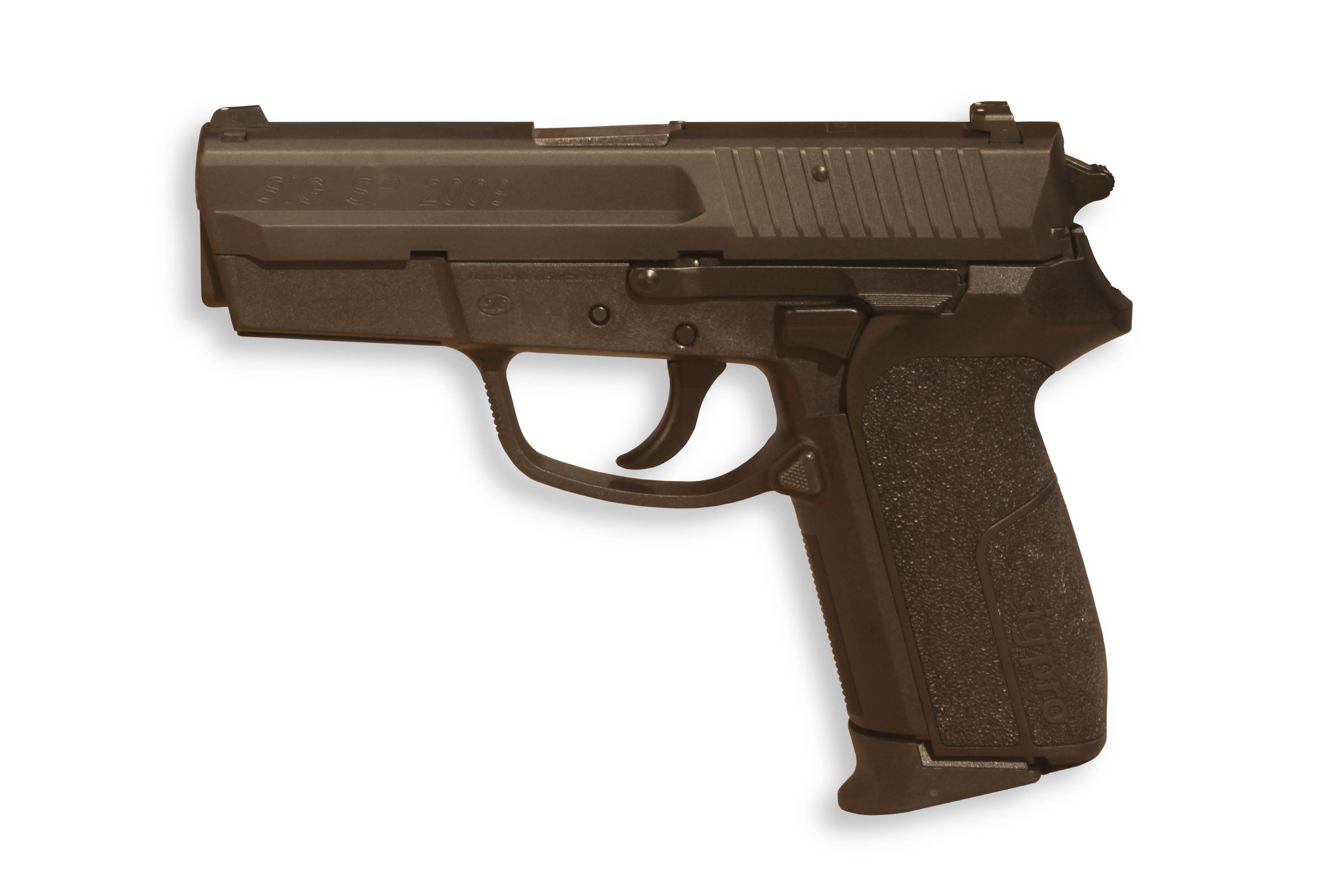 SIG Pro. On display at Morges military museum.